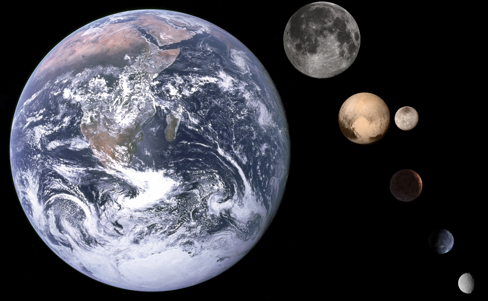 This image shows the relative sizes of Earth on the left, with (from top to bottom) the Moon, Pluto and its moon Charon, (90377) Sedna, (50000) Quaoar, and (1) Ceres.